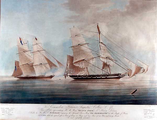 HMS Black Joke firing on the Spanish Slaver El Almirante